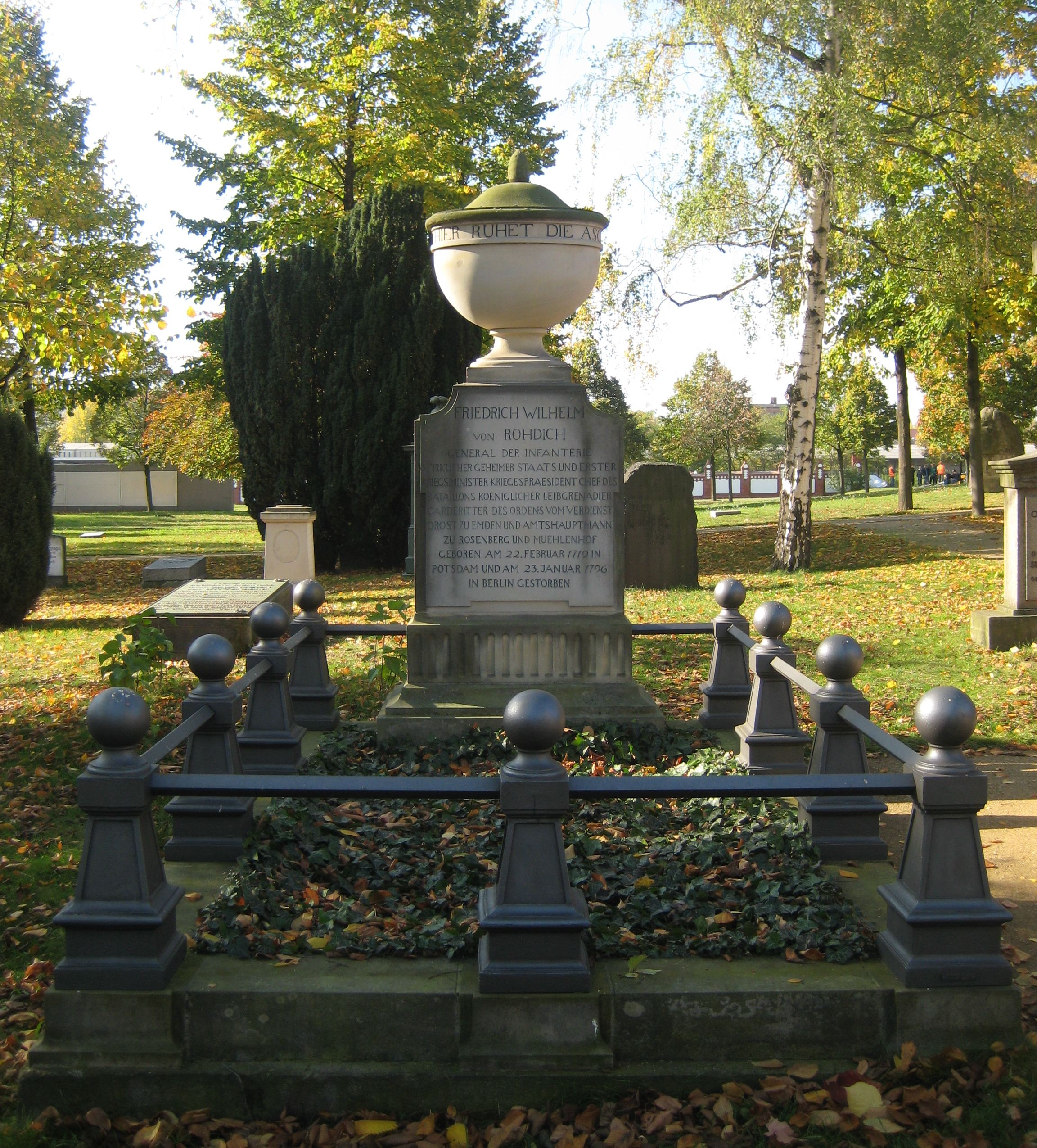 Grave of Friedrich Wilhelm von Rohdich (1796) at Invalidenfriedhof cemetery in Berlin